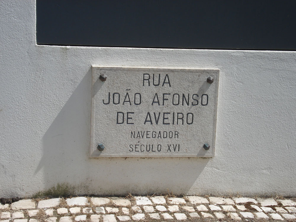 photo of toponymic slab